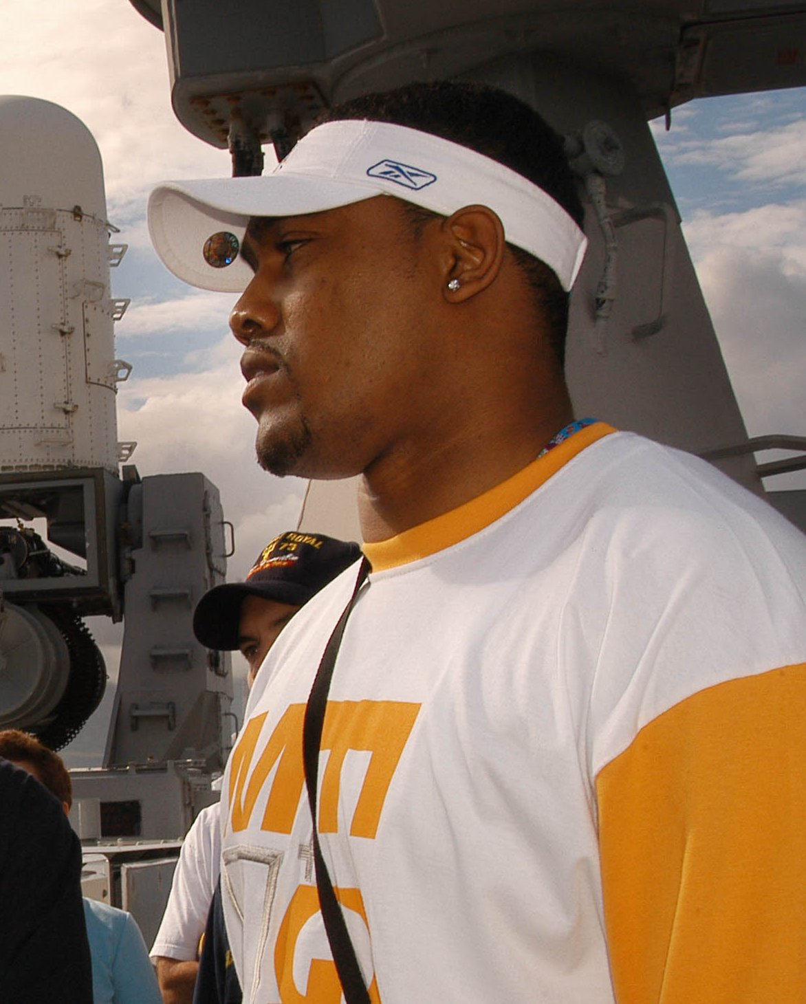 Marcus Washington, cropped from :Image:Marcuswashingtonandnavy.jpg. Original description: Washington Redskins Linebacker Marcus Washington listens to Lt.j.g. Jeff Servellio during a tour of the guided missile cruiser USS Port Royal (CG 73) on board Naval Station Pearl Harbor, Hawaii. Washington visited Pearl Harbor and Port Royal while in Hawaii for the National Football League Pro Bowl. The Pro Bowl, featuring the All-Stars from the National Football Conference against the American Football Conference, will be played for the 26th consecutive year at Aloha Stadium in Honolulu, Hawaii.